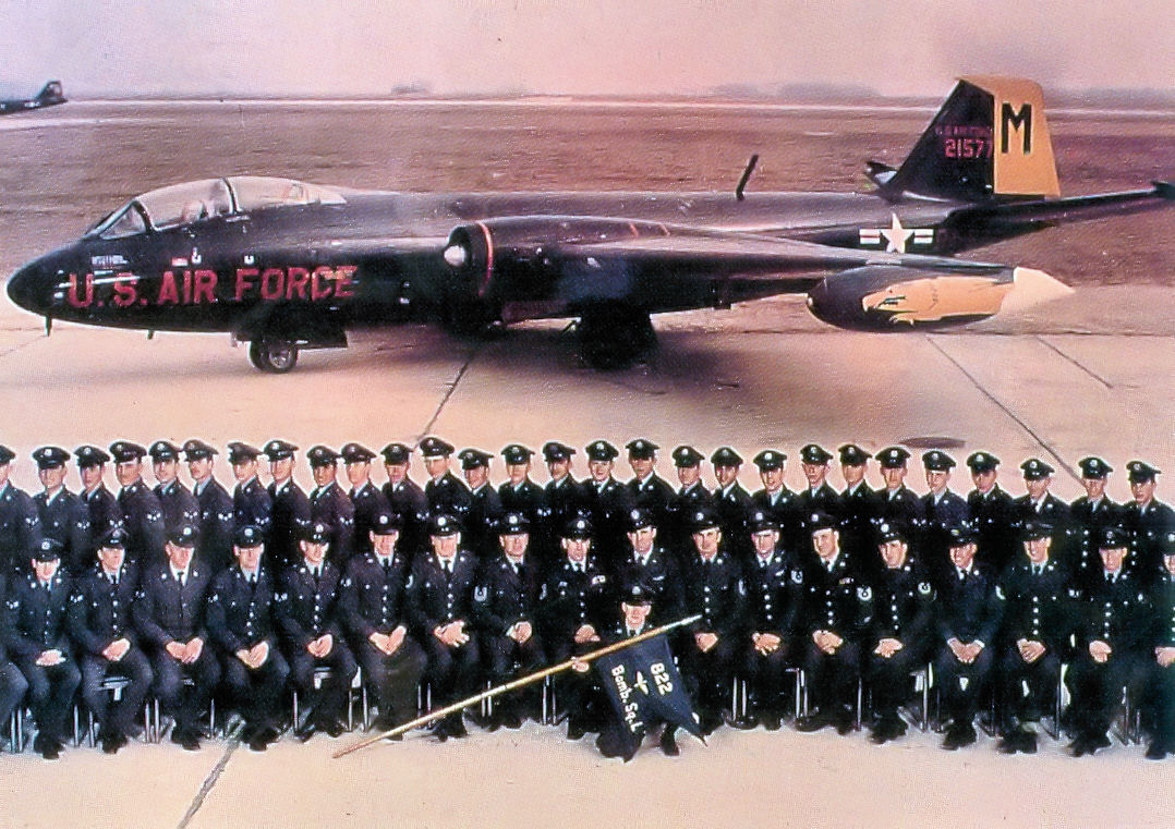 822d Bombardment Squadron B-57B-MA 52-1577 1956